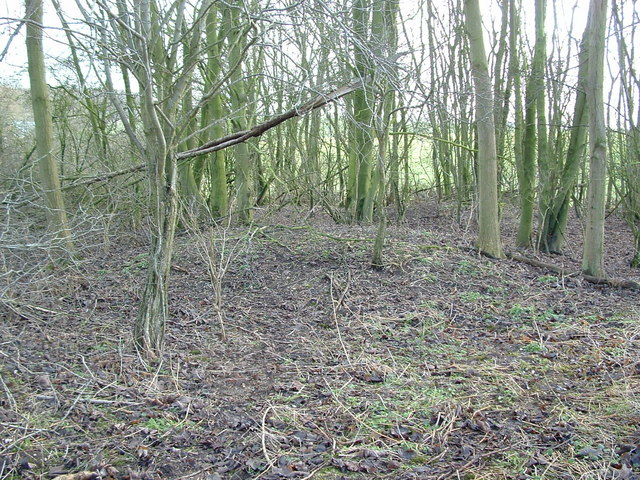 Danes Graves, Kilham, East Riding of Yorkshire, England.Close up of one of the burial mounds at "Danes Graves" just visible as a hump centre frame. These mounds were dug by Mortimer in the 19th century and many of the finds are in Hull and East Riding Museum.